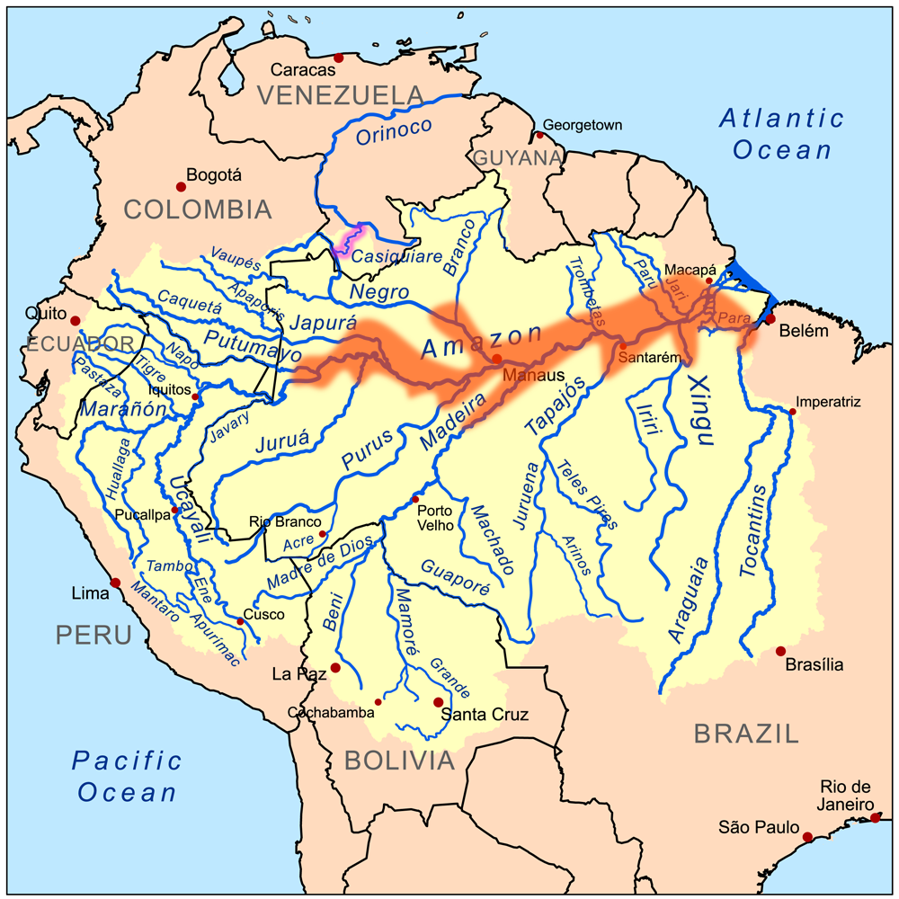 This is a map of distribution of Symphysodon (Discus fishes, in orange, in yellow Amazon River drainage basin).